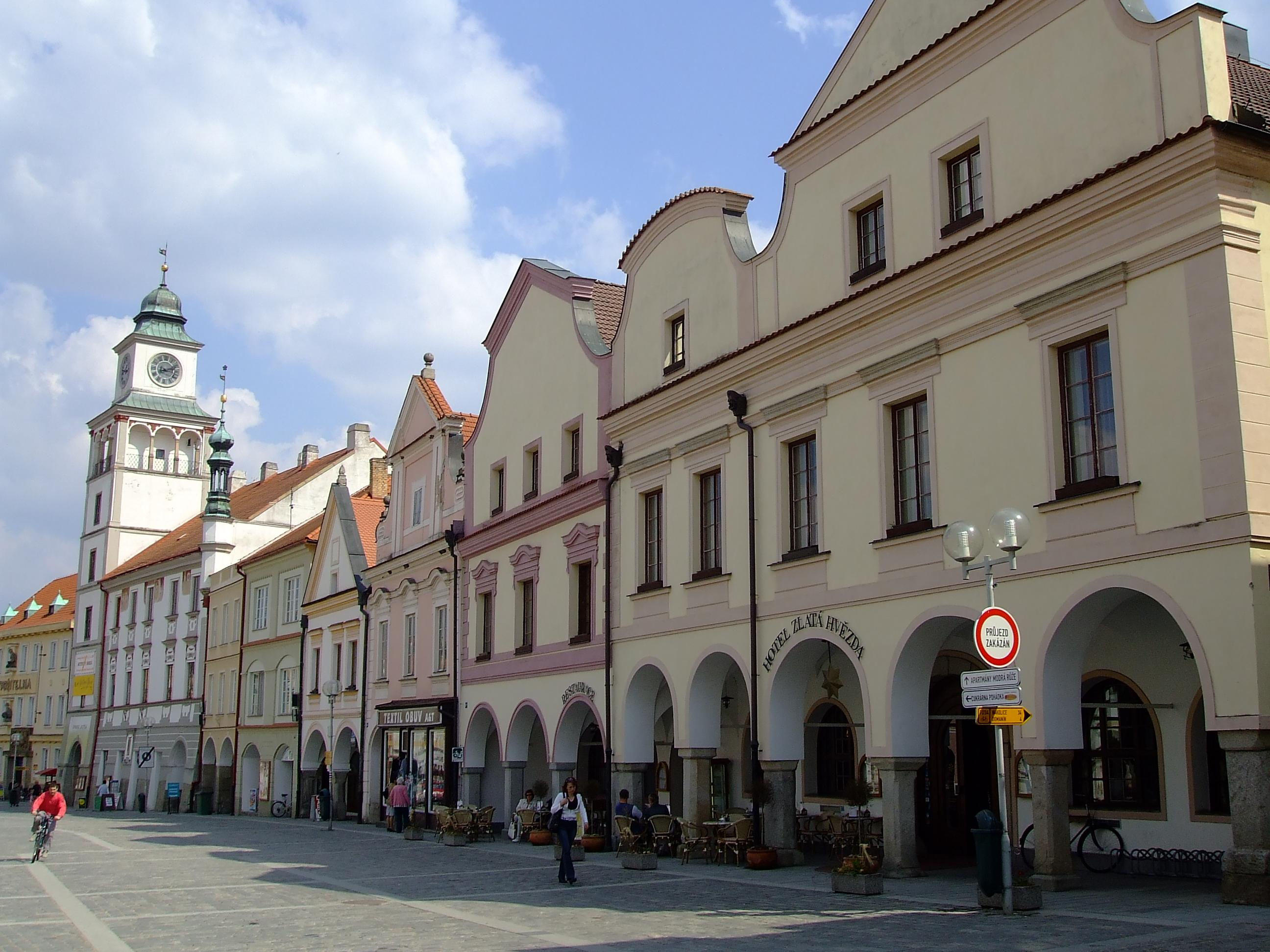 Zlatá Hvězda Třeboň